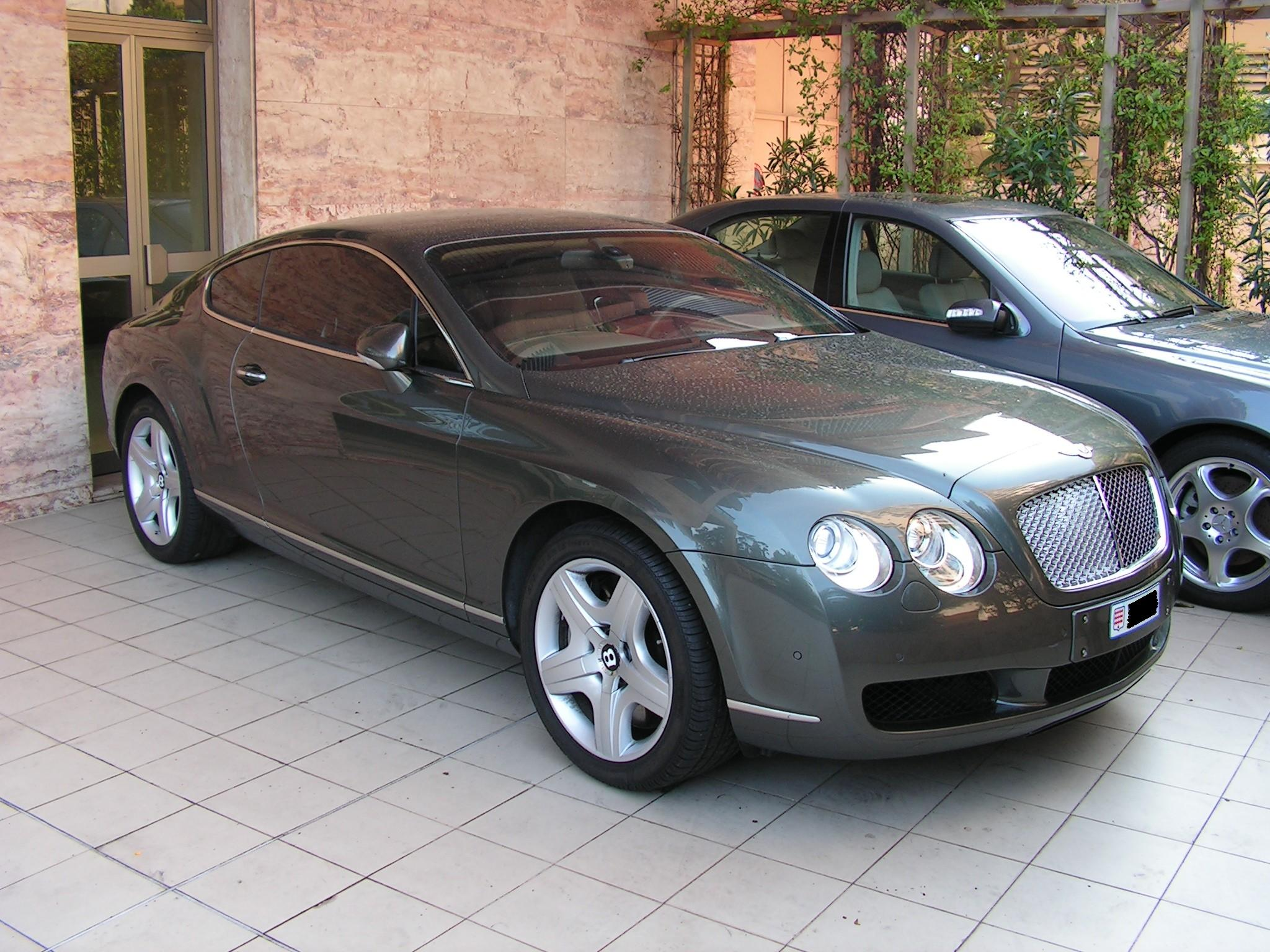 A Bentley Continental GT